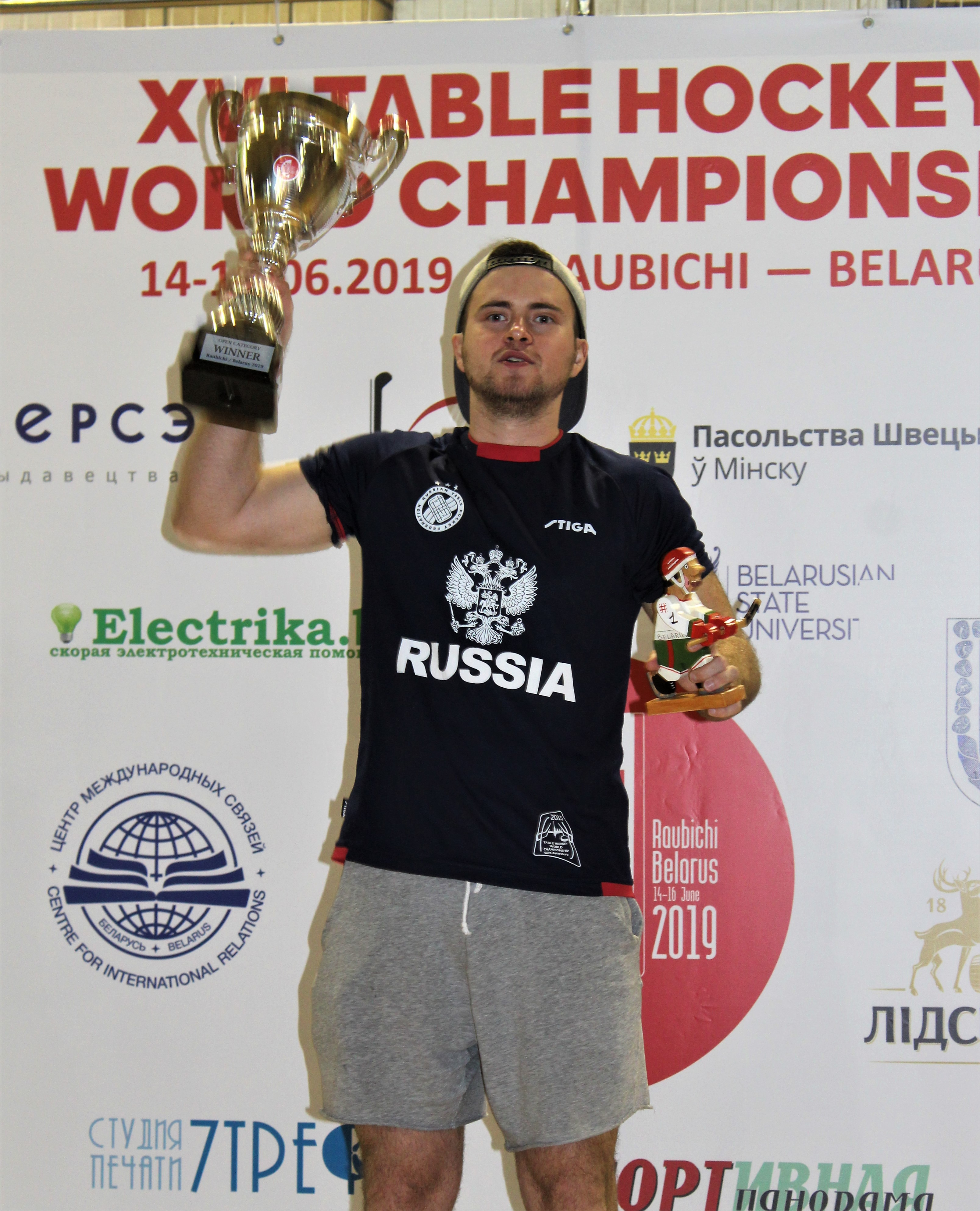 Maxim Borisov, the table hockey world champion at awarding at 2019 in Raubichi (BLR)